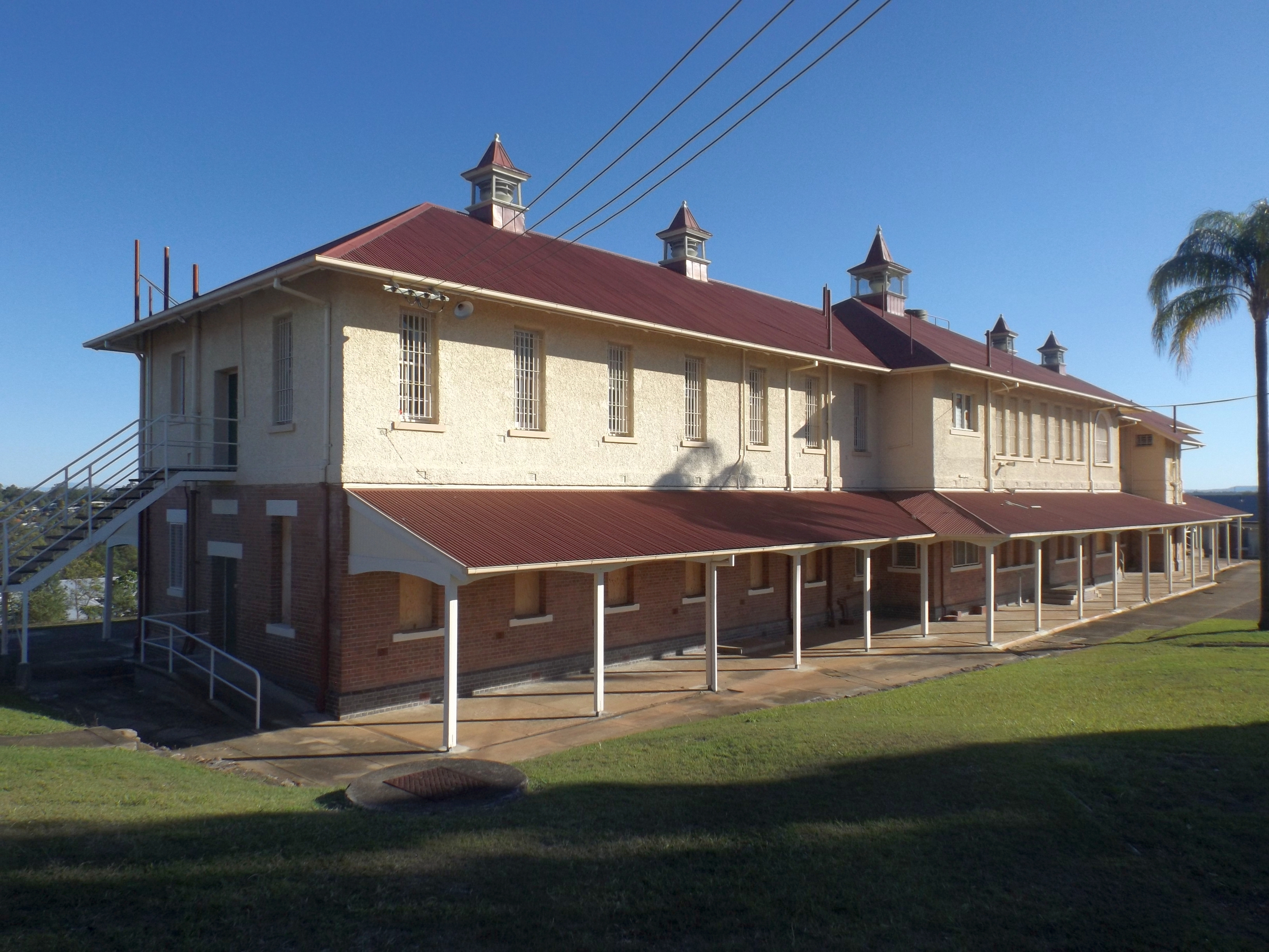 Photo of Ipswich Mental Hospital at Ipswich, Queensland, Australia.